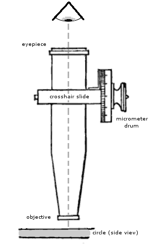 Drawing of part of a transit circle instrument - the reading microscopes. Derived from Norton, William A. (1867) A Treatise on Astronomy, Spherical and Physical